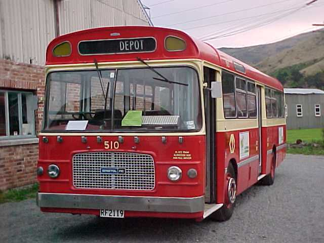 CTB of Christchurch NZ bus 510 seen here at Ferrymead Heritage Park where it is preserved. Bristol RELL 6L